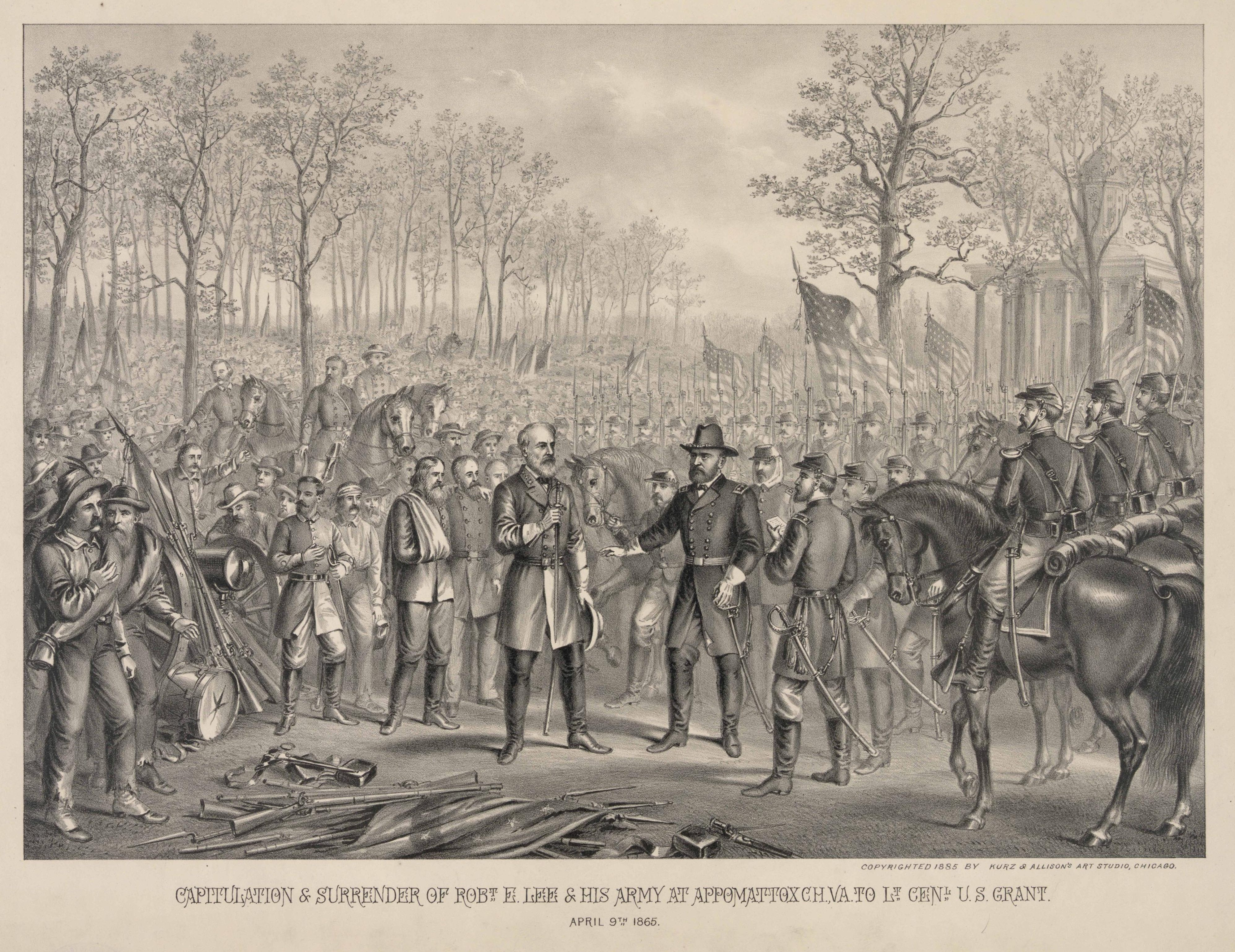 This image provided buy the Library of Congress shows an artists rendering of the surrender of Confederate General Robert E. Lee to Union General Ulysses S. Grant at Appomattox Court House on April 9, 1865. (AP Photo/Library of Congress Prints and Photographs Division, Kurz and Allison)